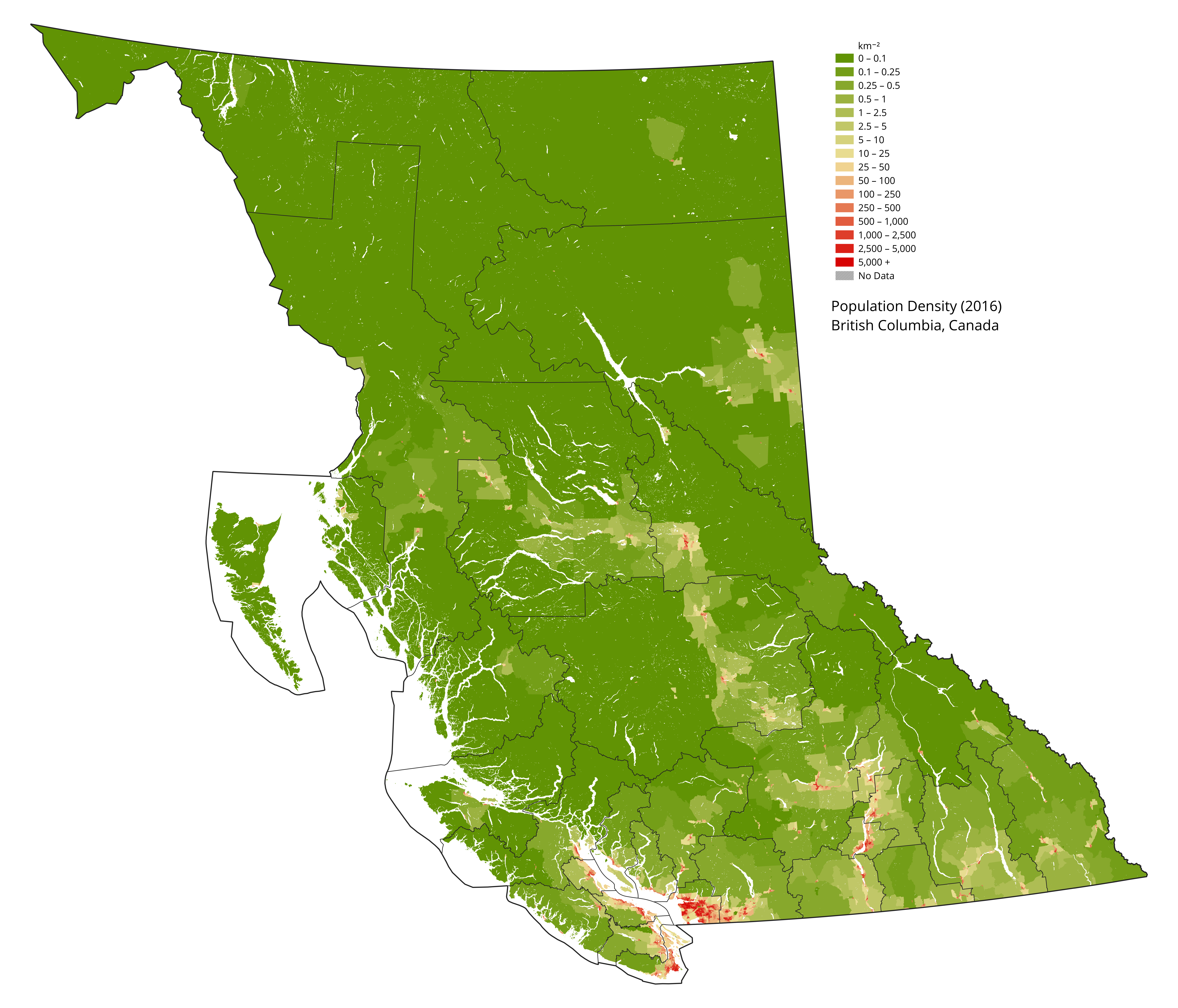 Population density map of British Columbia, Canada. Boundary open data and final counts from Canadian 2016 Census accessed on April 22 2018. Waterbodies from WWF HydroLAKES database.